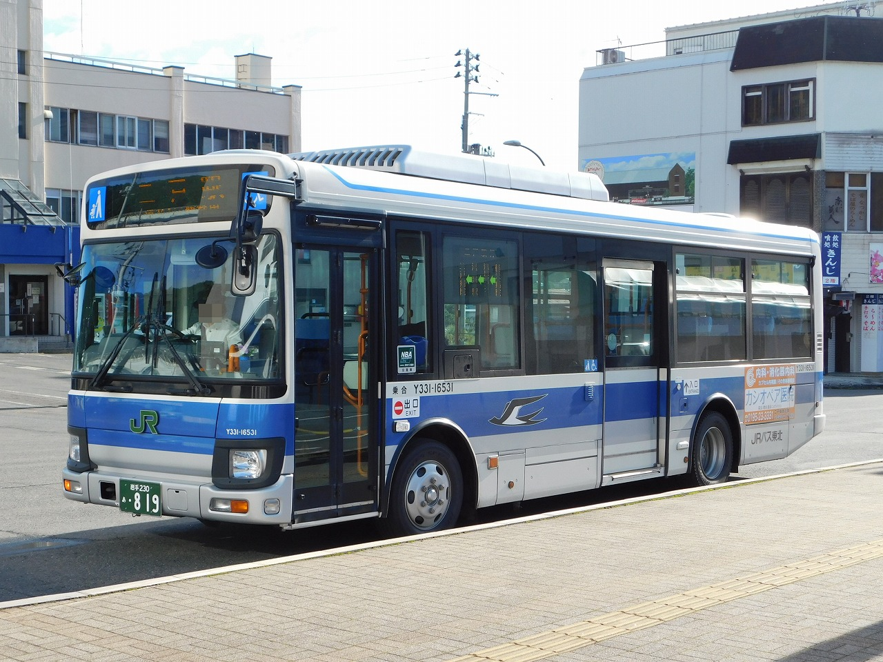 JR bus Tohoku (Ninohe branch) Isuzu Erga Mio (SKG-LR290J2)